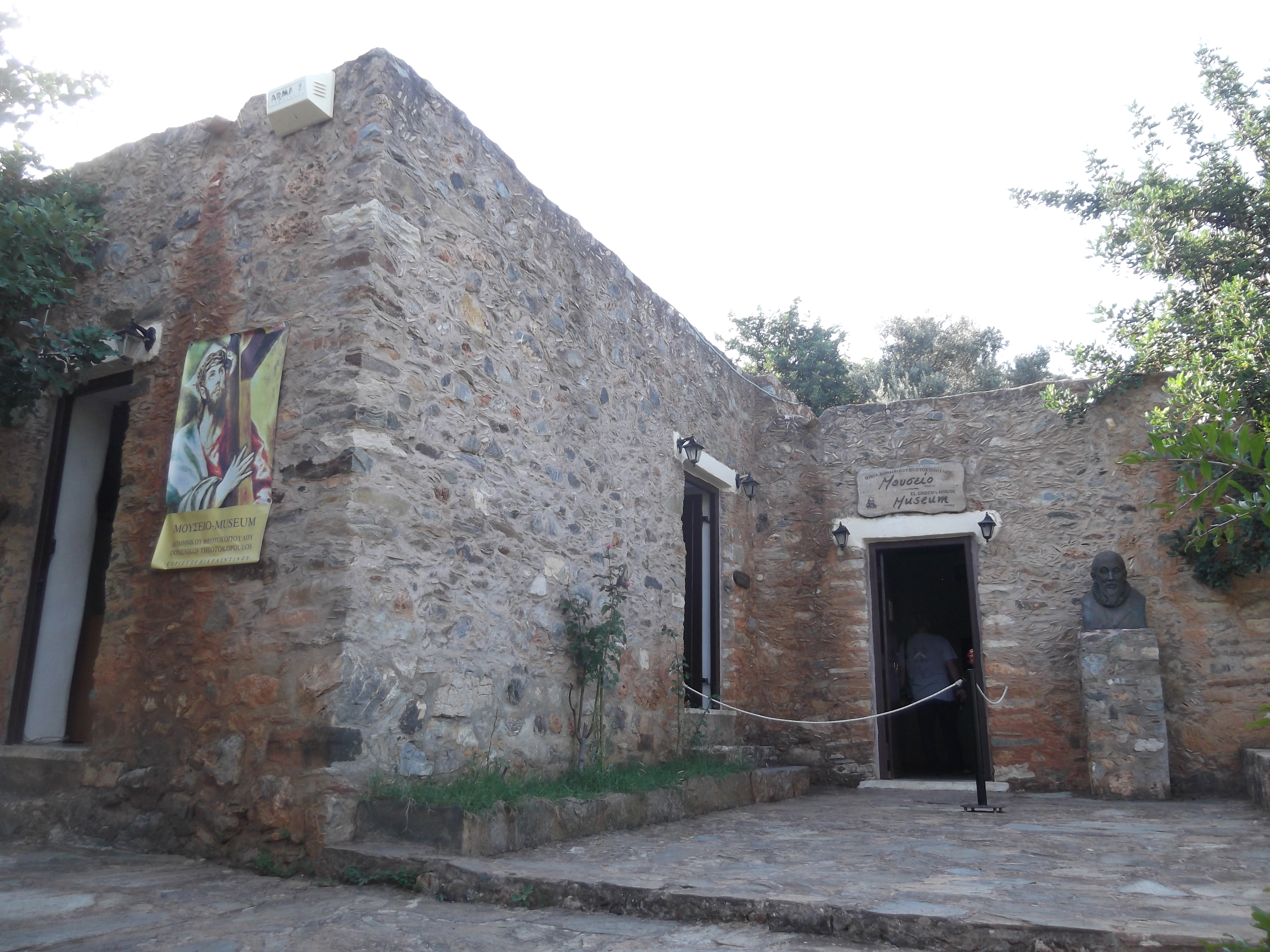 Front view of the Museum of El Greco building, west of Heraclion, Crete, Greece.